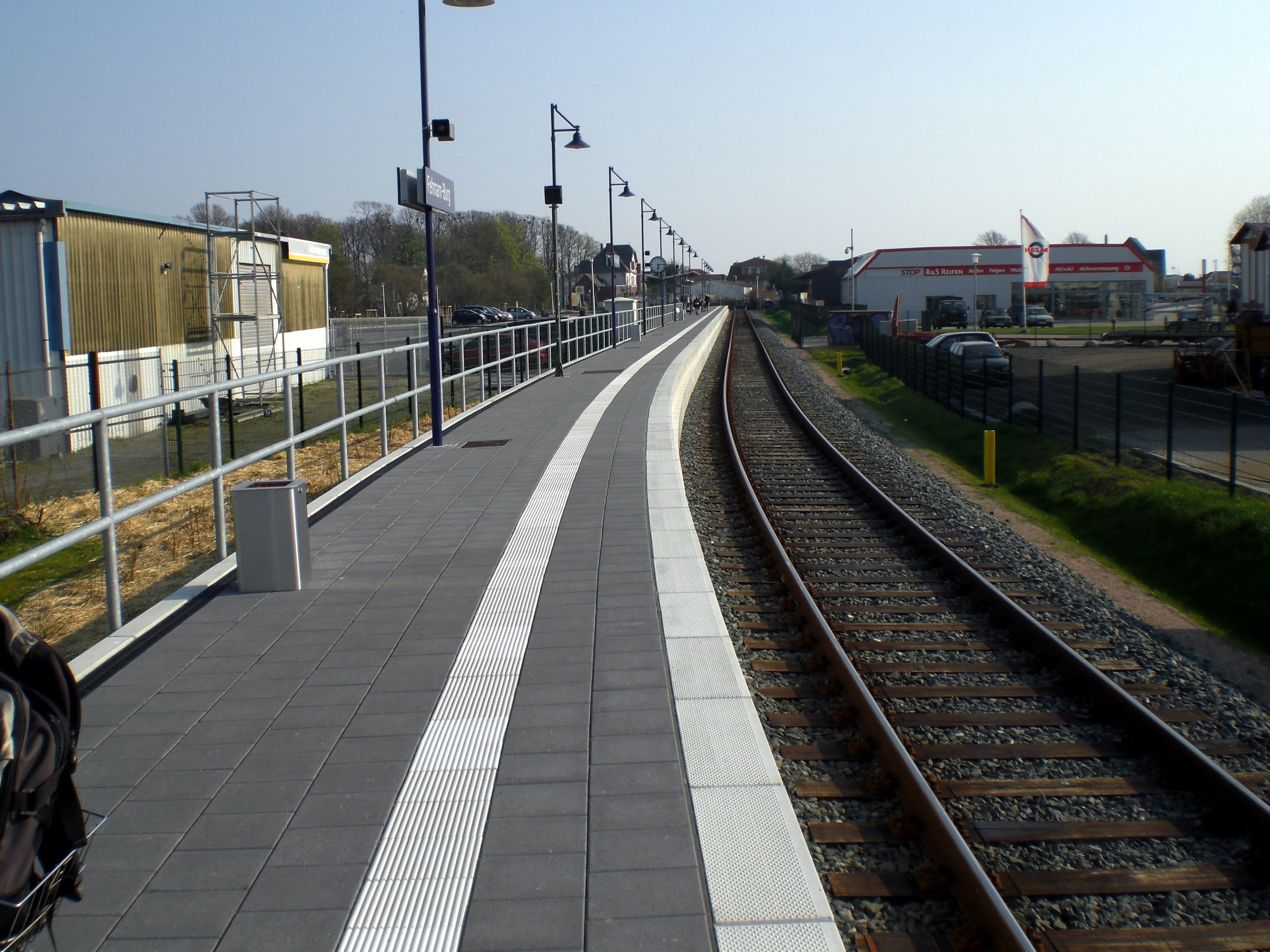 Burg train station, platform and track, on the island of Fehmarn, Germany. In the background left of the station clock you can perceive the old station building.